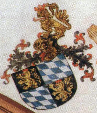 Wappen der Kurpfalz mit Helmzier, um 1420, Stiftskirche Neustadt Weinstrasse